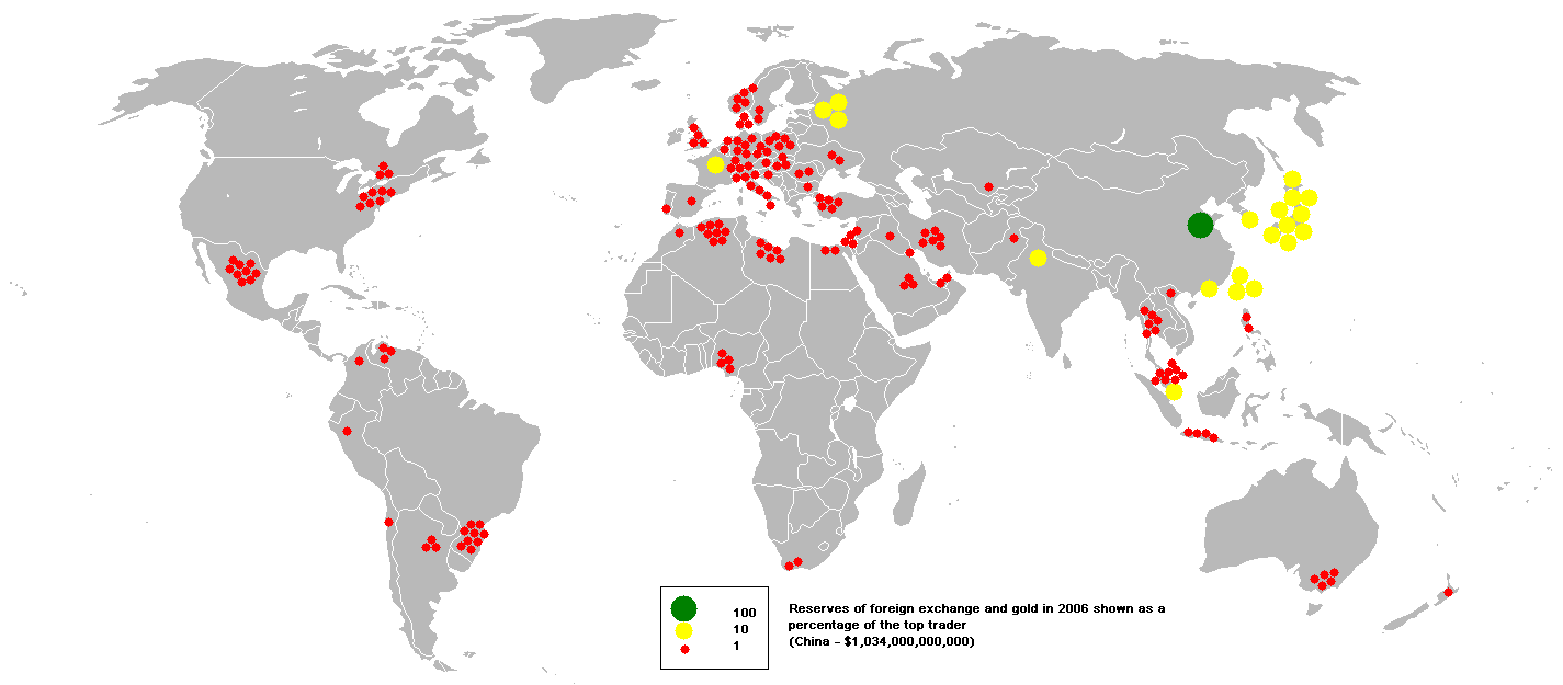 This bubble map shows the global distribution of reserves of foreign exchange and gold in 2006 as a percentage of the top market (China - $1,034,000,000,000). This map is consistent with incomplete set of data too as long as the top producer is known. It resolves the accessibility issues faced by colour-coded maps that may not be properly rendered in old computer screens. Data was extracted on 16th June 2007. Source - Based on :Image:BlankMap-World.png